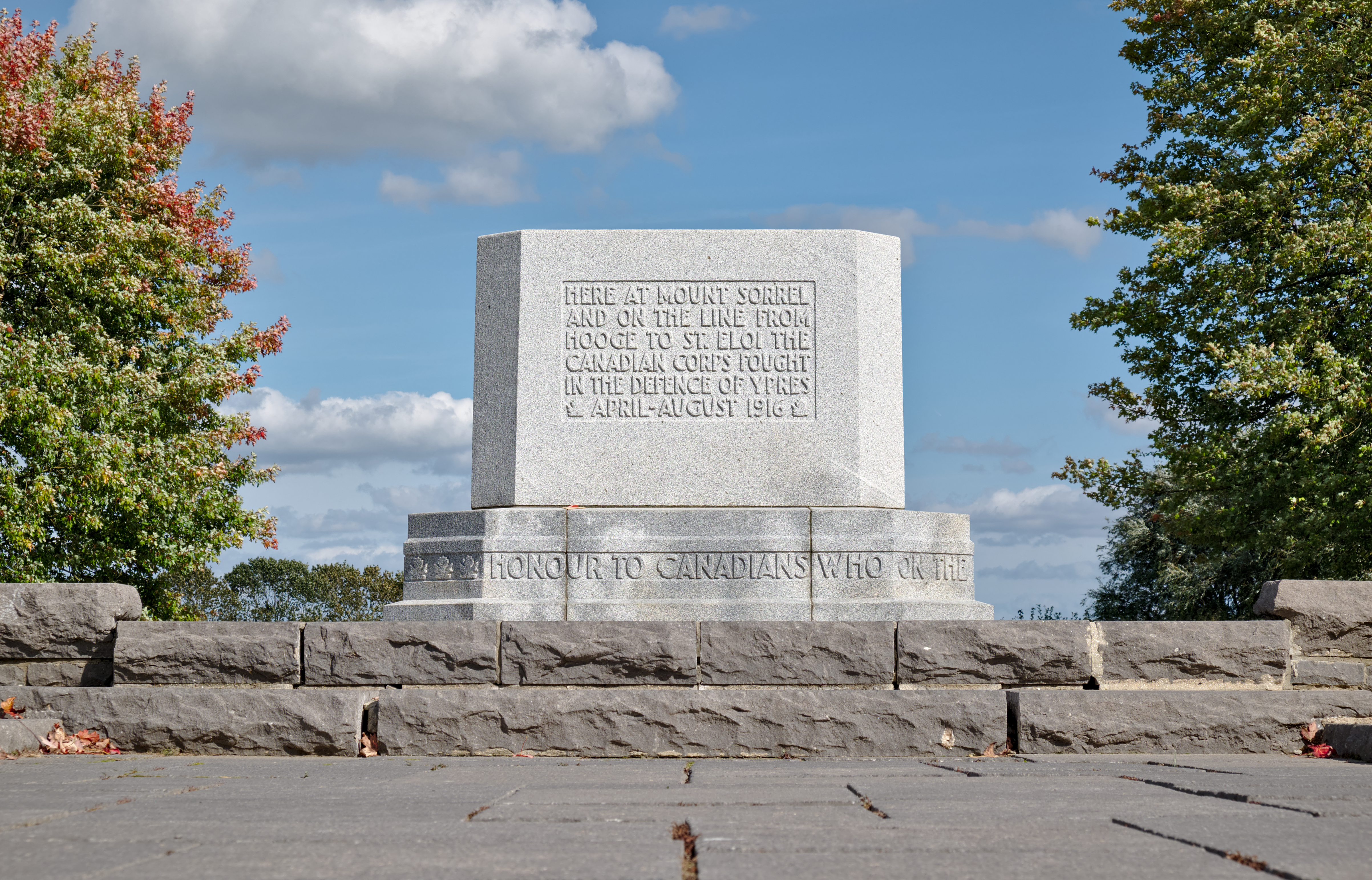 Canadian Hill 62 Memorial in Ypres, Belgium This photo of immovable heritage has been taken in the Flemish Region